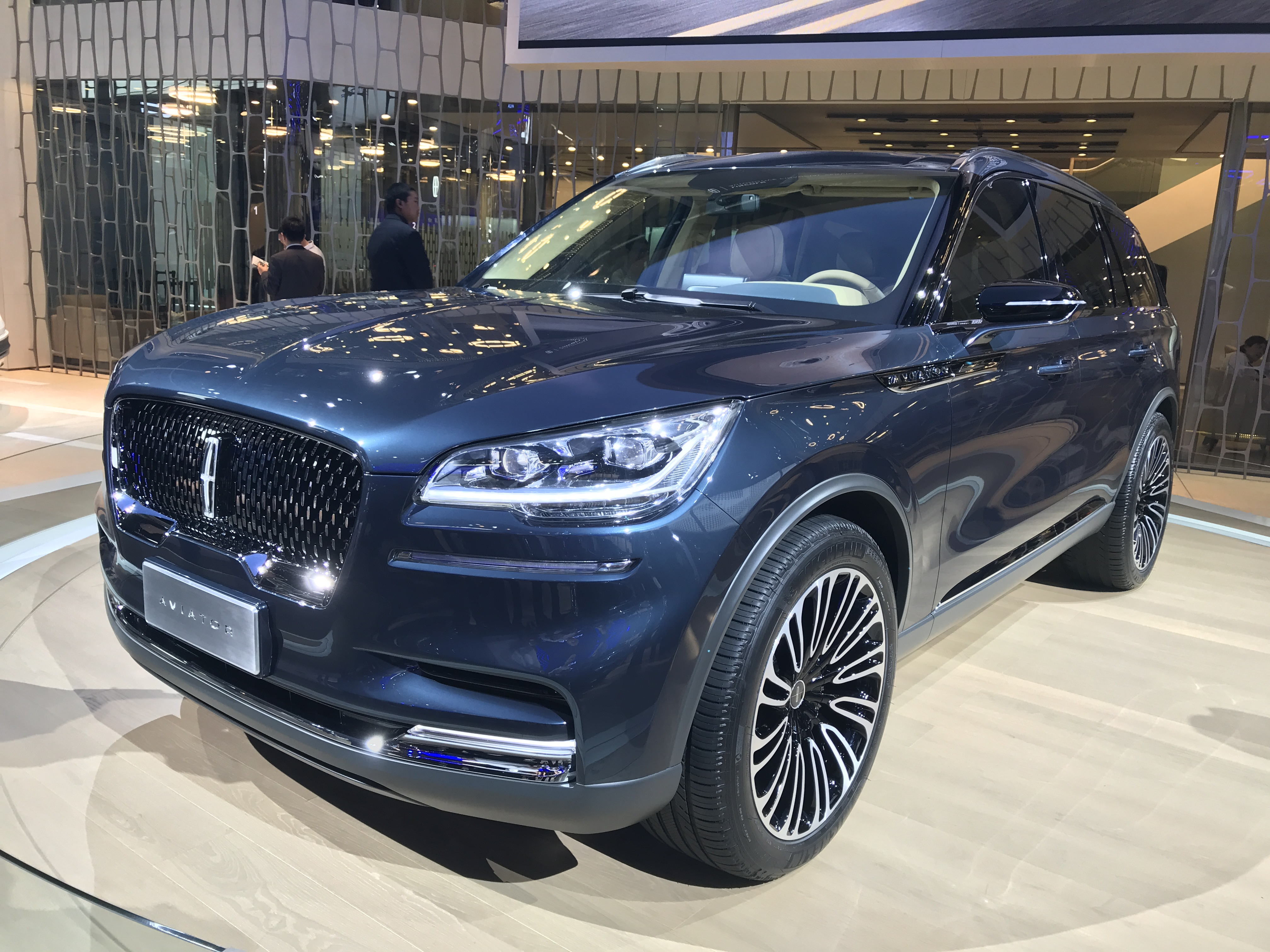 2019 Lincoln Aviator prototype